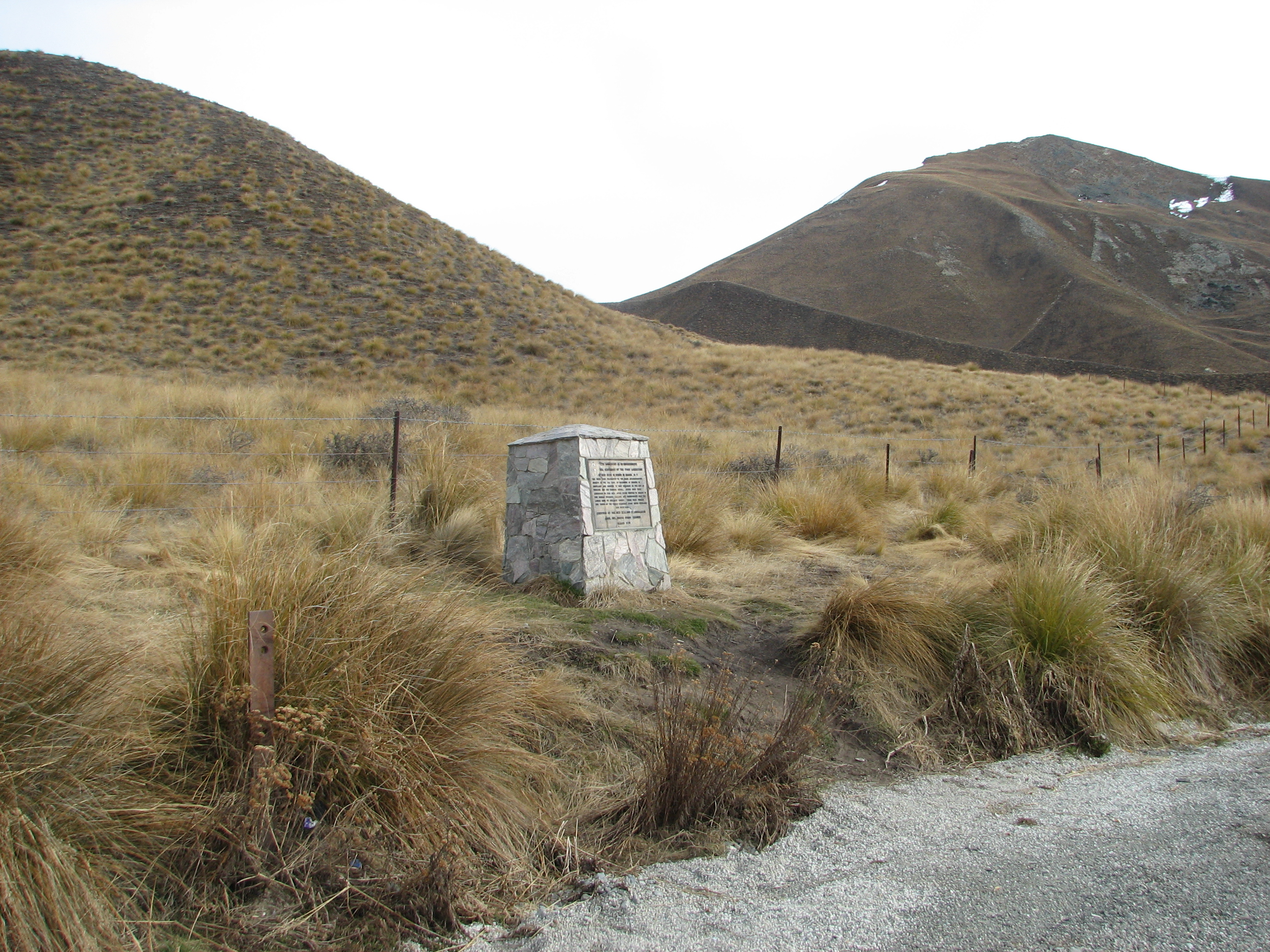 A roadside memorial commemorating the release of red deer in New Zealand. It reads: "THIS MONUMENT COMMEMORATES THE CENTENARY OF THE FIRST LIBERATION OF IN OTAGO IN MARCH 1871. THE DEER WERE PRESENTED TO THE OTAGO ACCLIMATISATION SOCIETY BY THE 11th EARL OF DALHOUSIE OF BRECHEN IN SCOTLAND AND SHIPPED TO PORT CHALMERS ON THE CITY OF DUNEDIN AND THE WARRIOR QUEEN. SEVEN DEER WERE LIBERATED IN THIS AREA AFTER BEING SHIPPED TO OAMARU IN THE PADDLE STEAMER WALLACE AND TRANSPORTED OVER THE LINDIS PASS BY BULLOCK WAGON. THESE DEER FORMED THE BASIS OF THE WORLD RENOWNED OTAGO SOUTH WESTLAND RED DEER HERD. ERECTED BY THE NEW ZEALAND DEERSTALKERS ASSOCIATION INC. NORTH OTAGO BRANCH 1971"